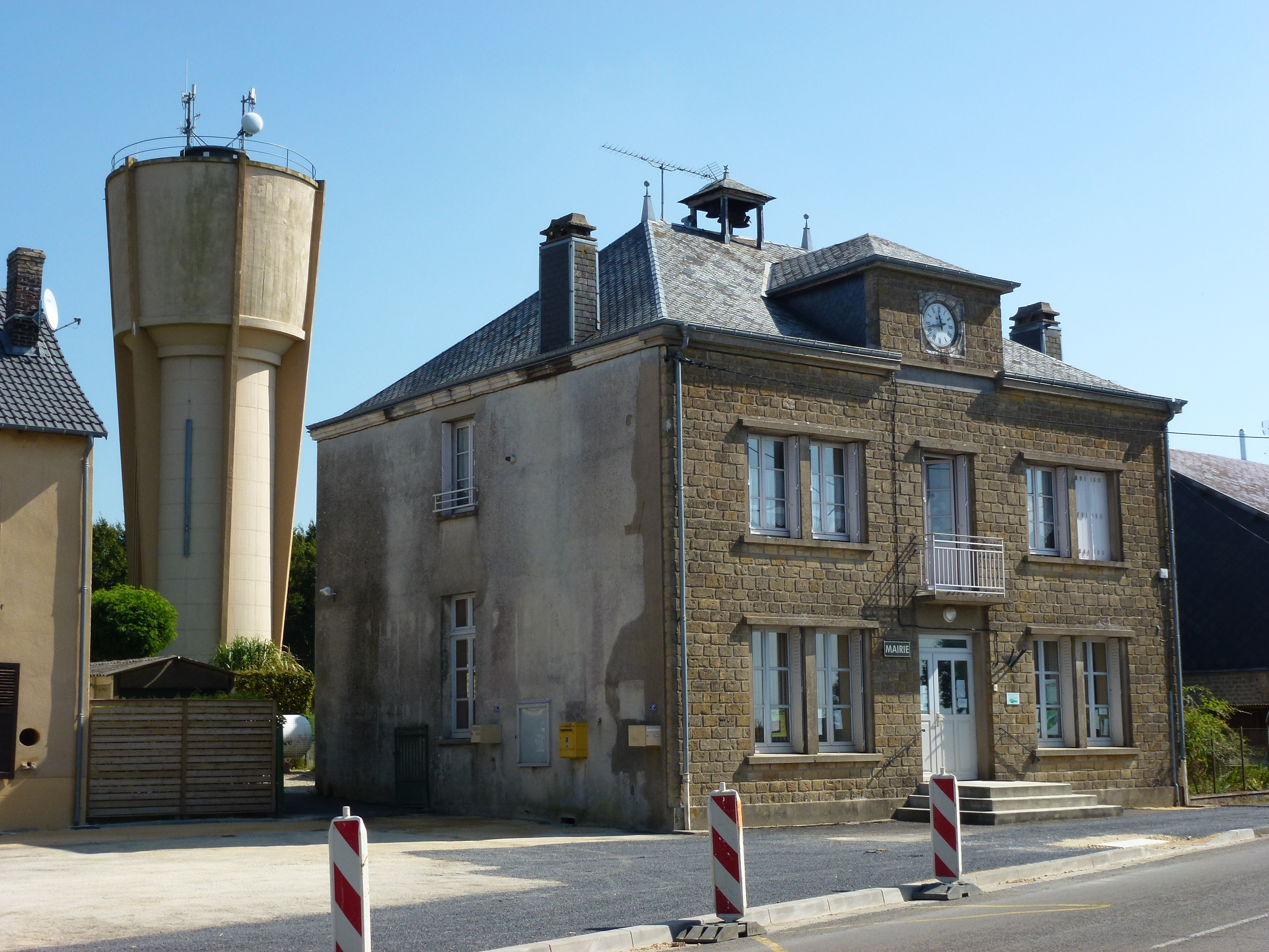 Bouvellemont (Ardennes) mairie et château d'eau